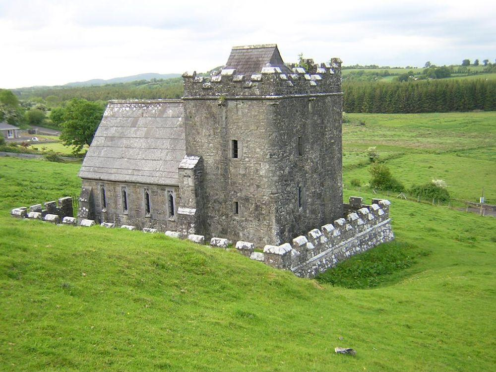 Anchorite's Cell at Fore Abbey Co. Westmeath